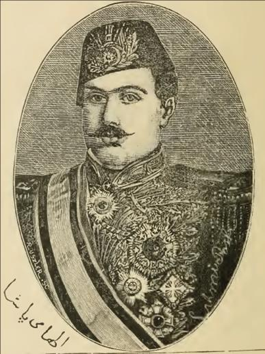 الداماد إبراهيم إلهامي باشا، ابن والي مصر عباس الأول، وزوج منيرة سلطان، ابنة السلطان عبد المجيد الأول. Damad Prince Ibrahim Ilhami Pasha (1836 – 1860)